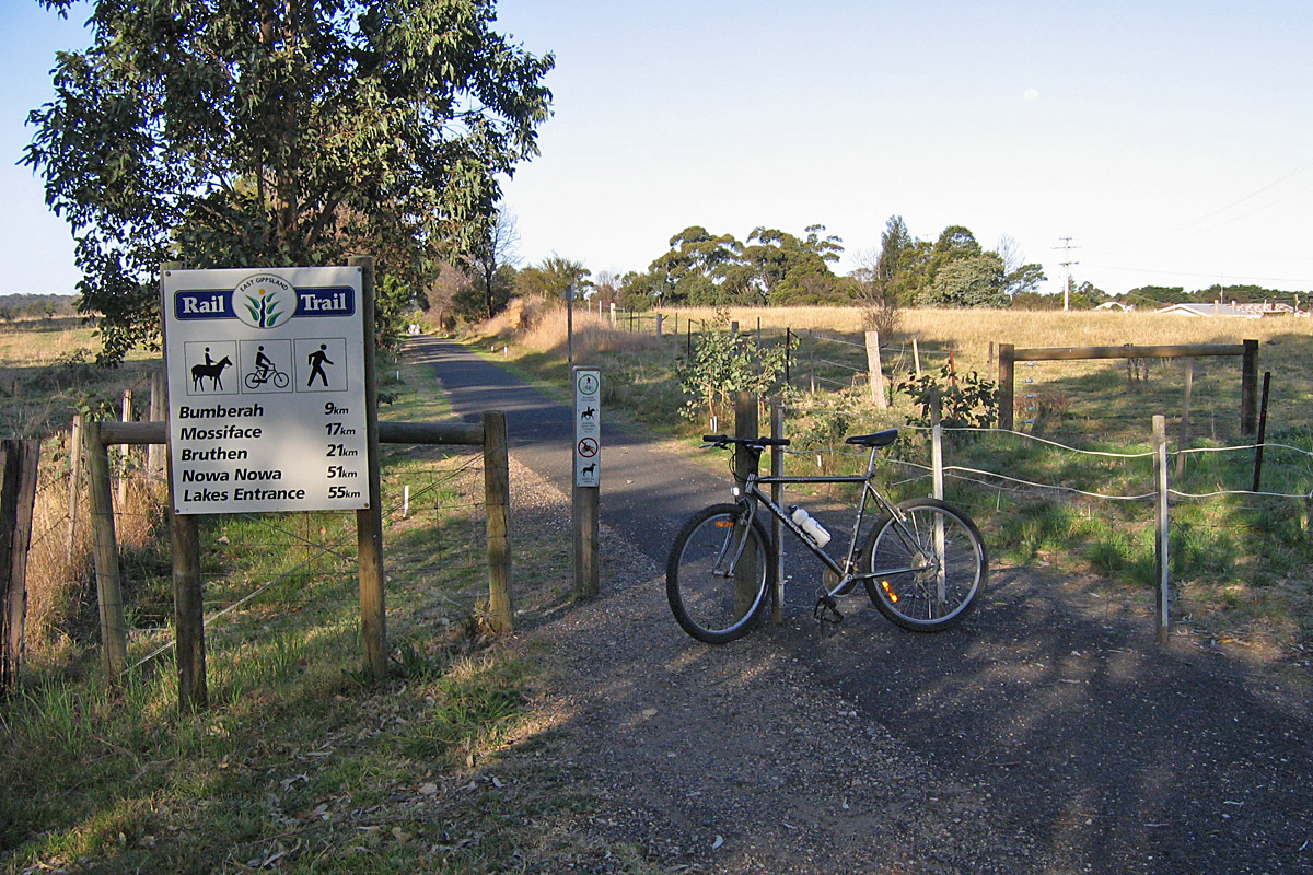 Looking east (towards Bruthen) along the East Gippsland Rail Trail from the Nicholson-Sarsfield Rd, Nicholson, Victoria, Australia.